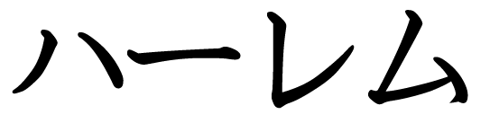 Harem (ハーレム) in Japanese. Font used: Epson Gyosho.